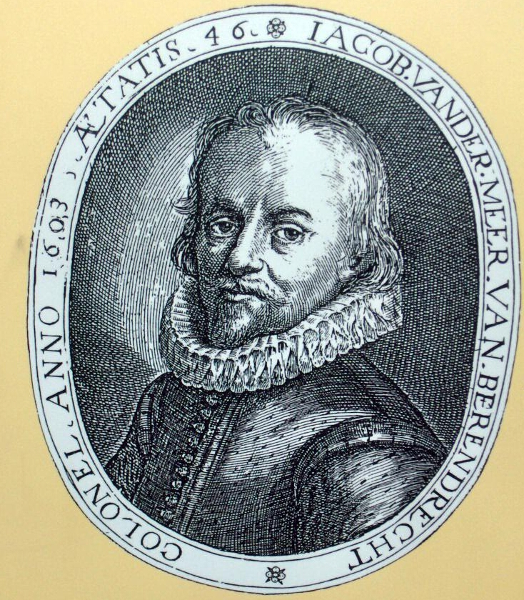 Siege of Ostend (1601-1604) by Spanish troops; Portrait of Jacob van der Meer, baron Berendrecht; one of the governors during the siege of Ostend